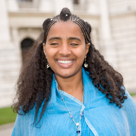 Photo of Ethiopian disability rights activist, Yetnebersh Nigussie, taken during a visit to Vienna, Austria in 2011.